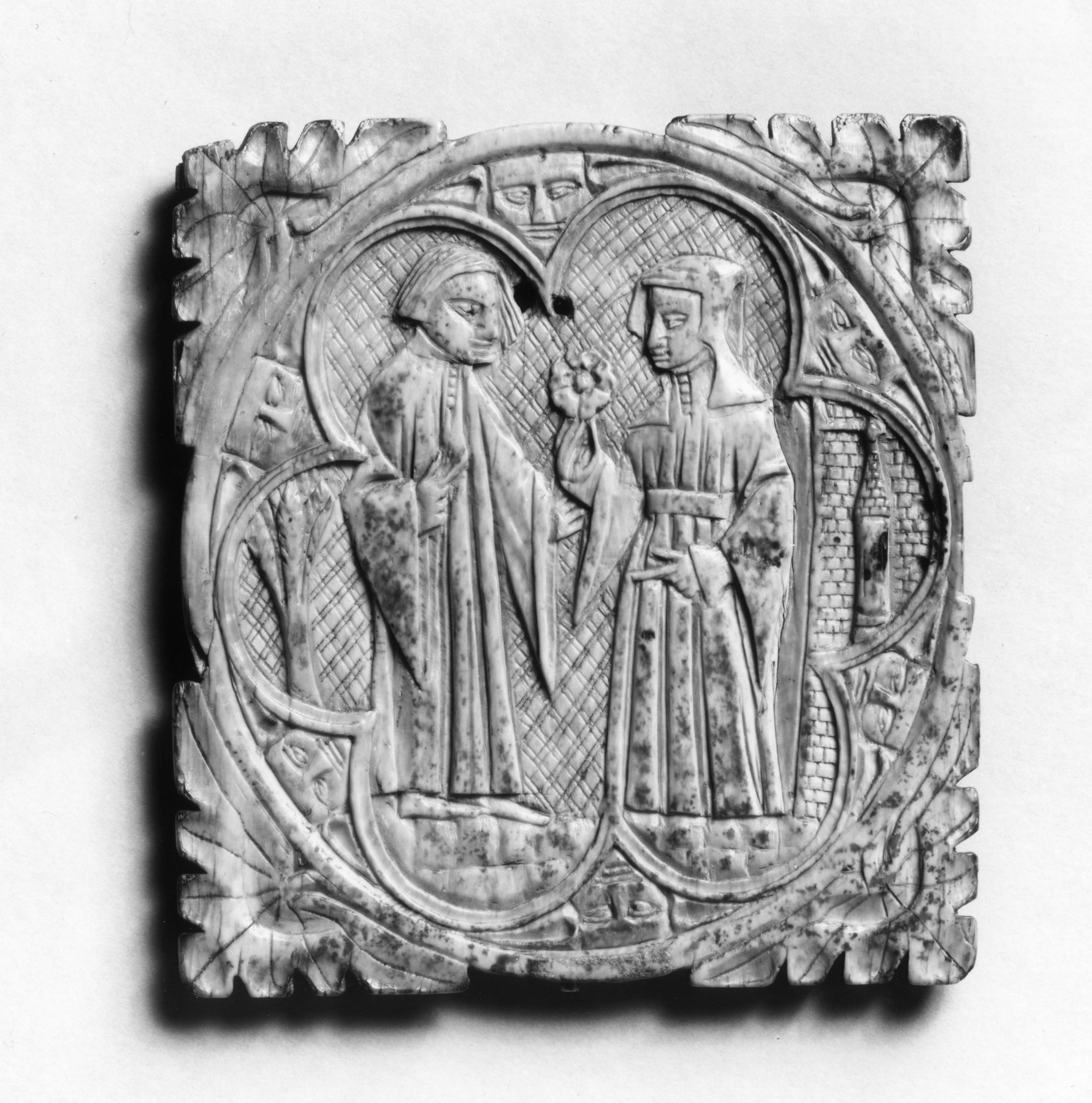 A couple stands within a hexafoil against a crosshatched ground; a stylized castle is at the right and a tree at the left. The man wears a "houppelande" with wide sleeves; the woman's "houppelande" is pleated and belted. The woman wears a veil on her head and presents her partner with a large rose. The spandrels of the hexafoil are filled with masks, and the mirror is brought to a square with four corner leaves showing incised veins. There are two later holes drilled in the cover. The iconography relates this piece to Walters 71.269.